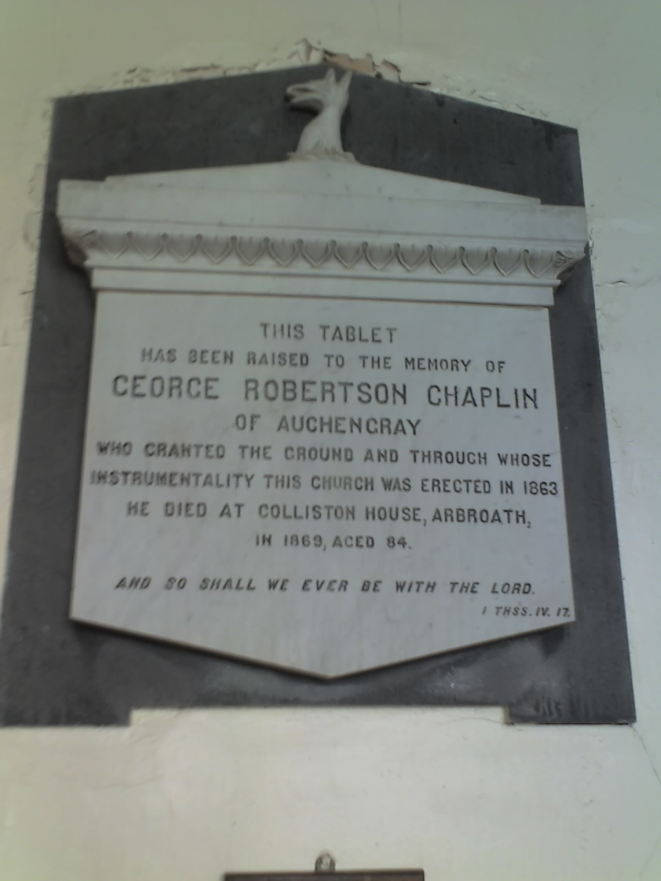 George Robertson Chaplin memorial plaque in Auchengray Church: This tablet has been raised to the memory of George Robertson Chaplin of Auchengray who granted the ground and through whose instrumentality this church was erected in 1863. He died at Colliston House, Arbroath, in 1863, aged 84. And so shall we ever be with the Lord. I THSS. IV. 17.